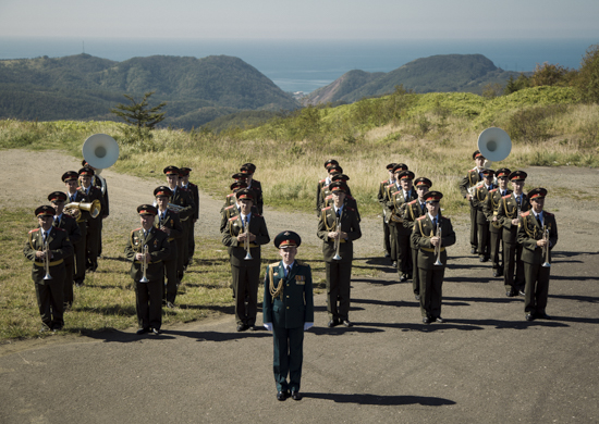 Международный фестиваль военных оркестров «Спасская башня» прибыл на Сахалин и пройдет с 7 по 10 сентября в Южно-Сахалинске, Поронайске, Холмске, Корсакове, Томари, Невельске, Долинске